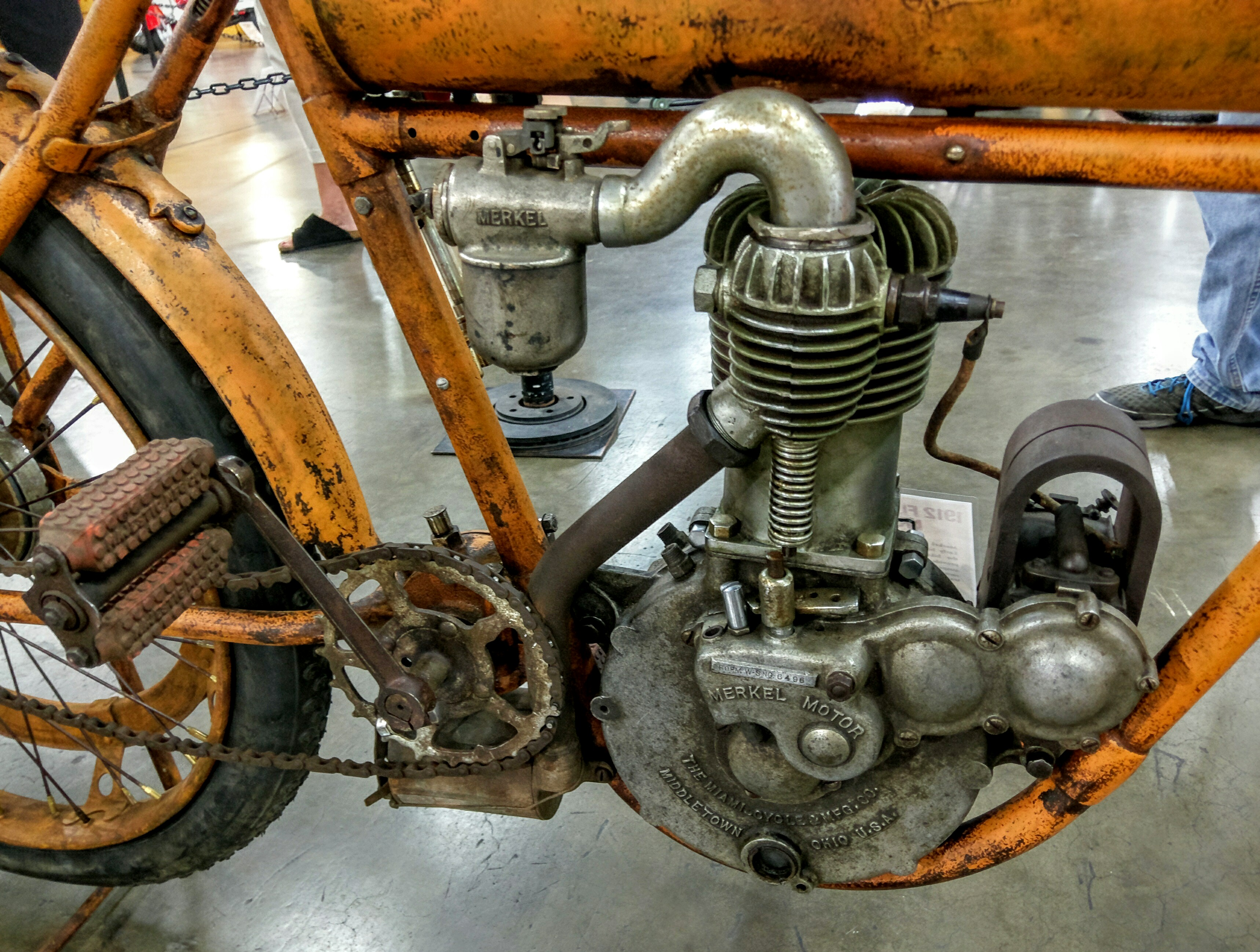 On display at the California Automobile Museum. Photo by Jim Heaphy.